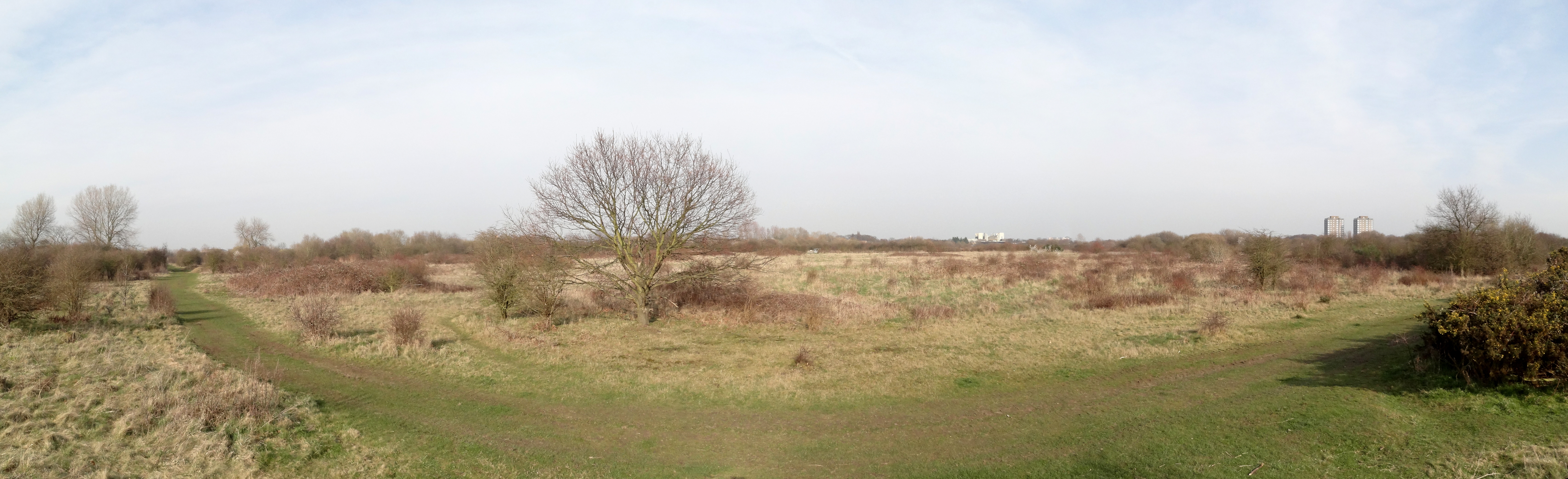 Panorama from 4 photos in Hounslow Heath, west London.